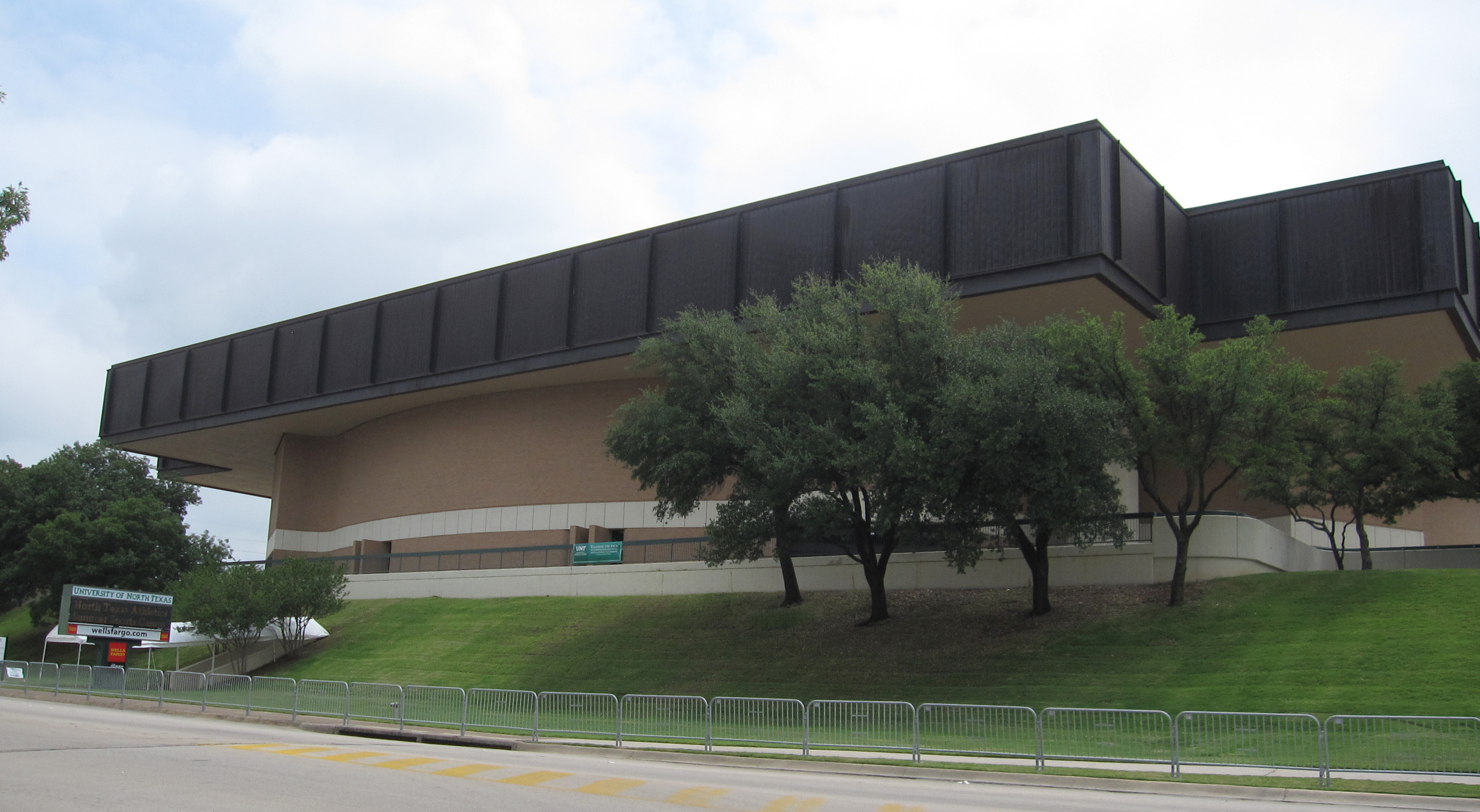 from the outside